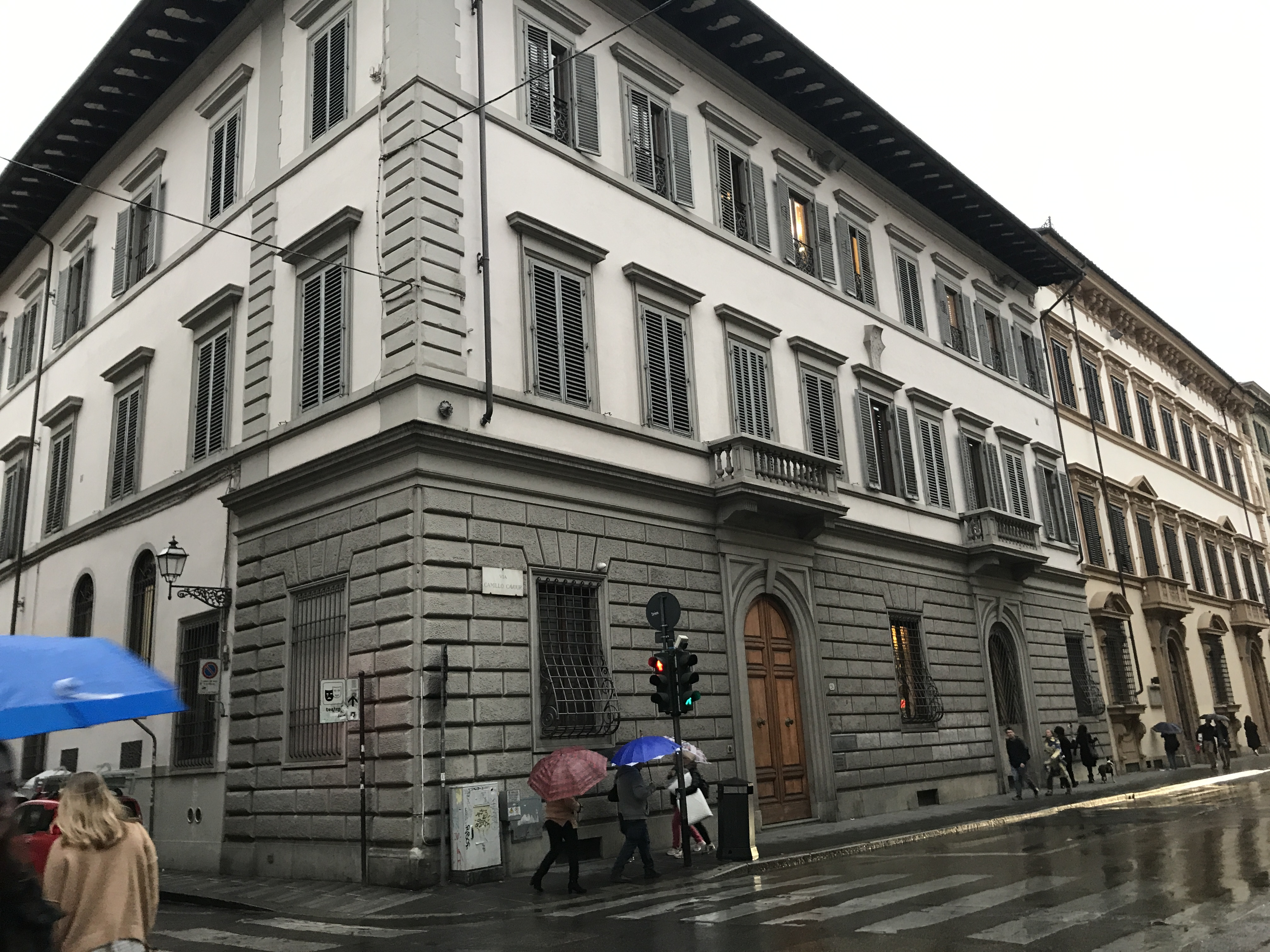 Picture taken on April 22nd of the Kent state campus in Florence (Italy).